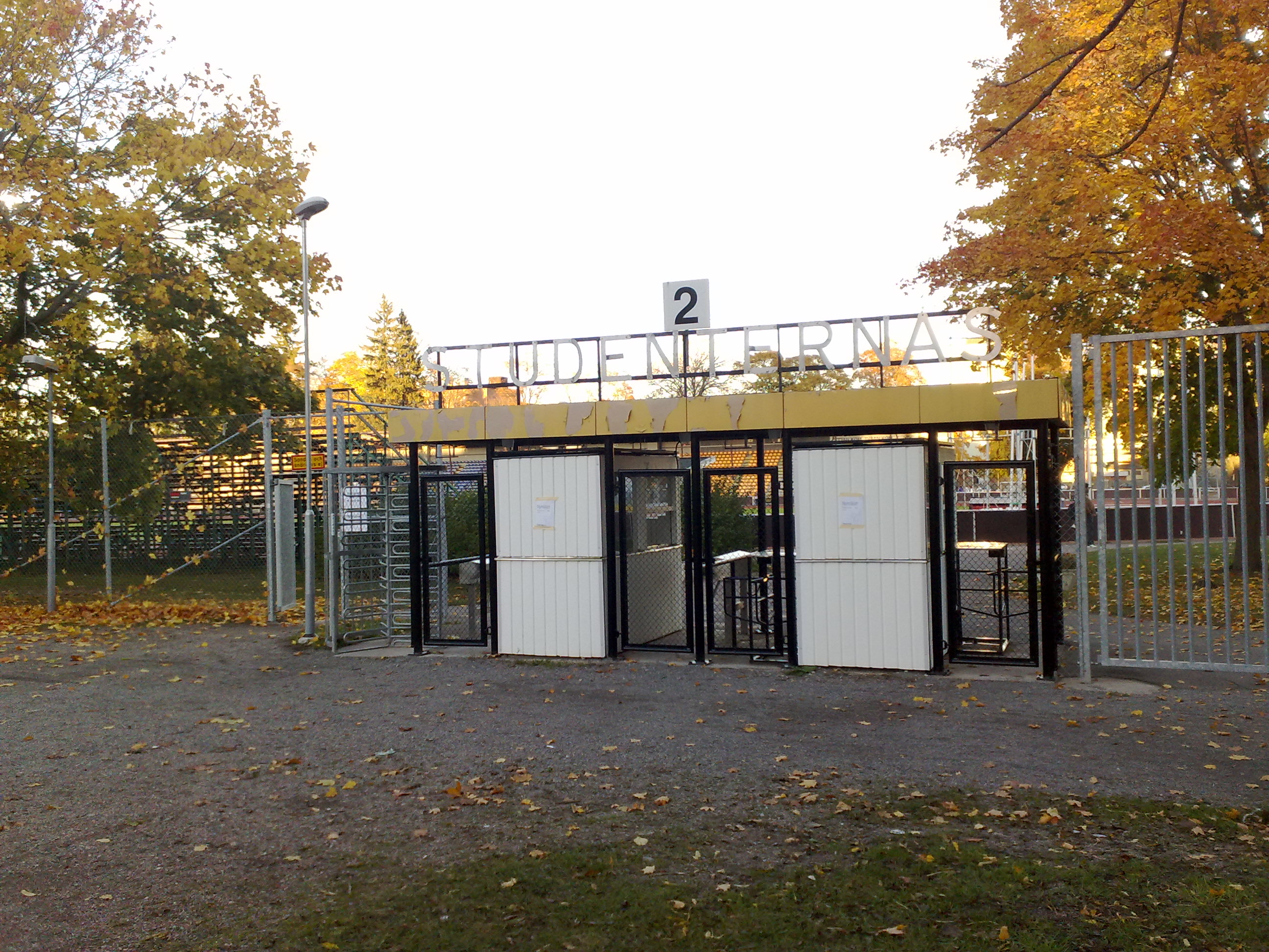 The entrance to the smaller stand at Studenternas IP in Uppsala, Sweden.